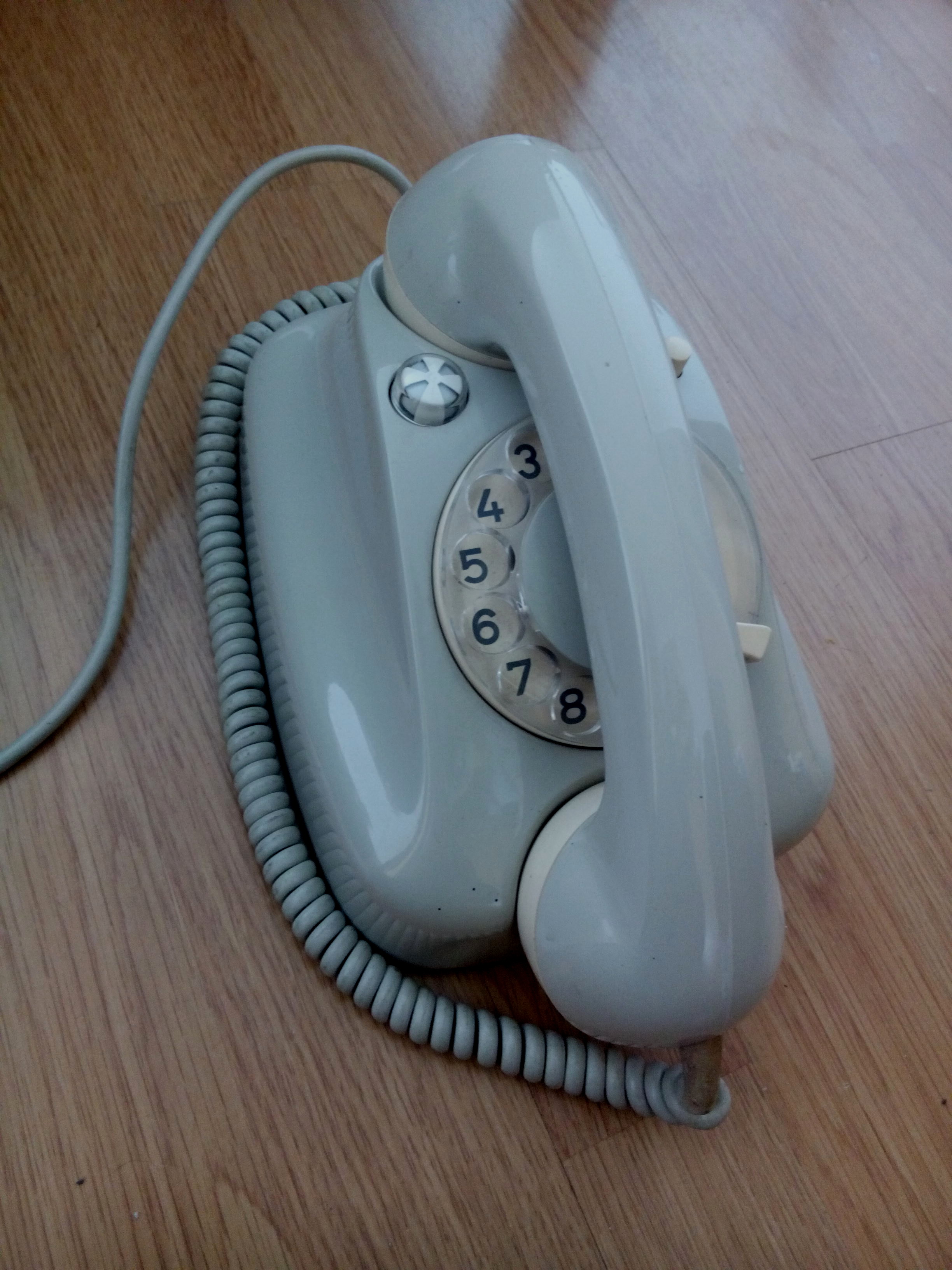 Siemens Fg tist 282 cc rotary dial telephone with hook flash key and falling disk